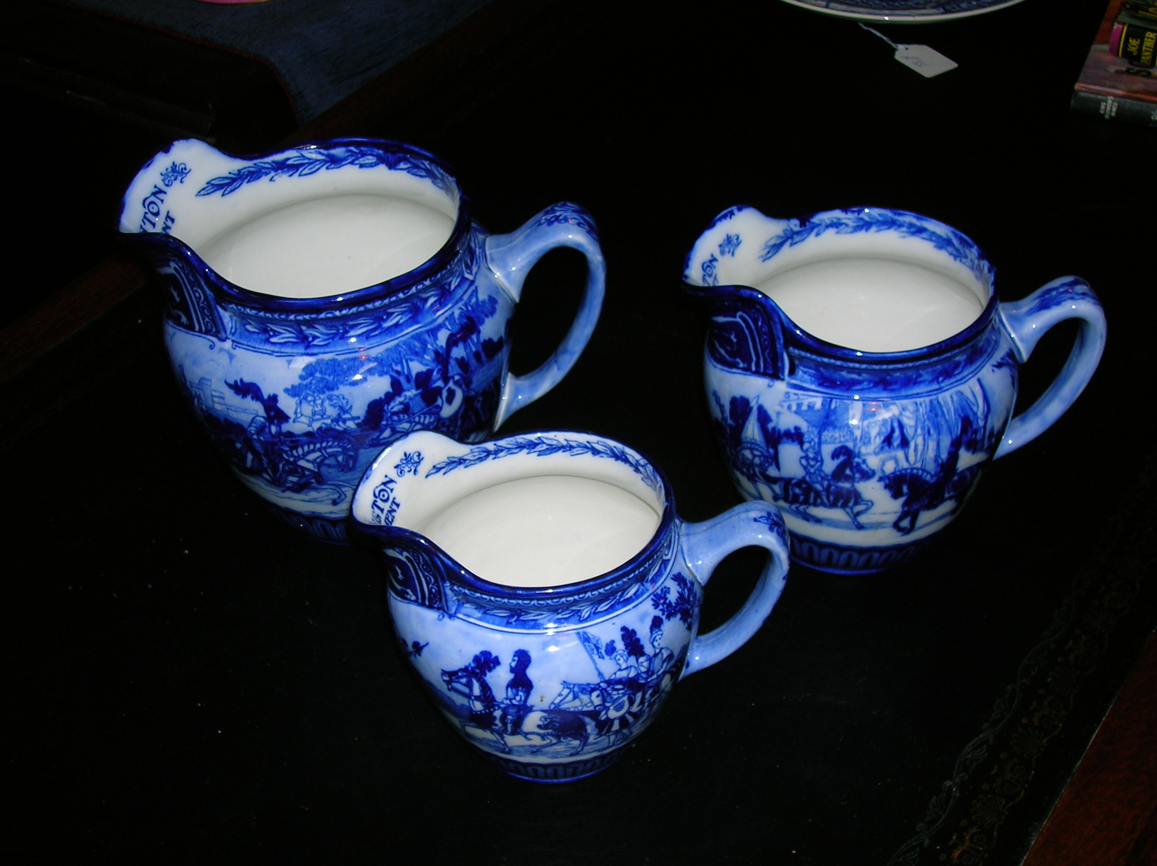 Three Eglinton Tournament (1839) commemorative Jugs.